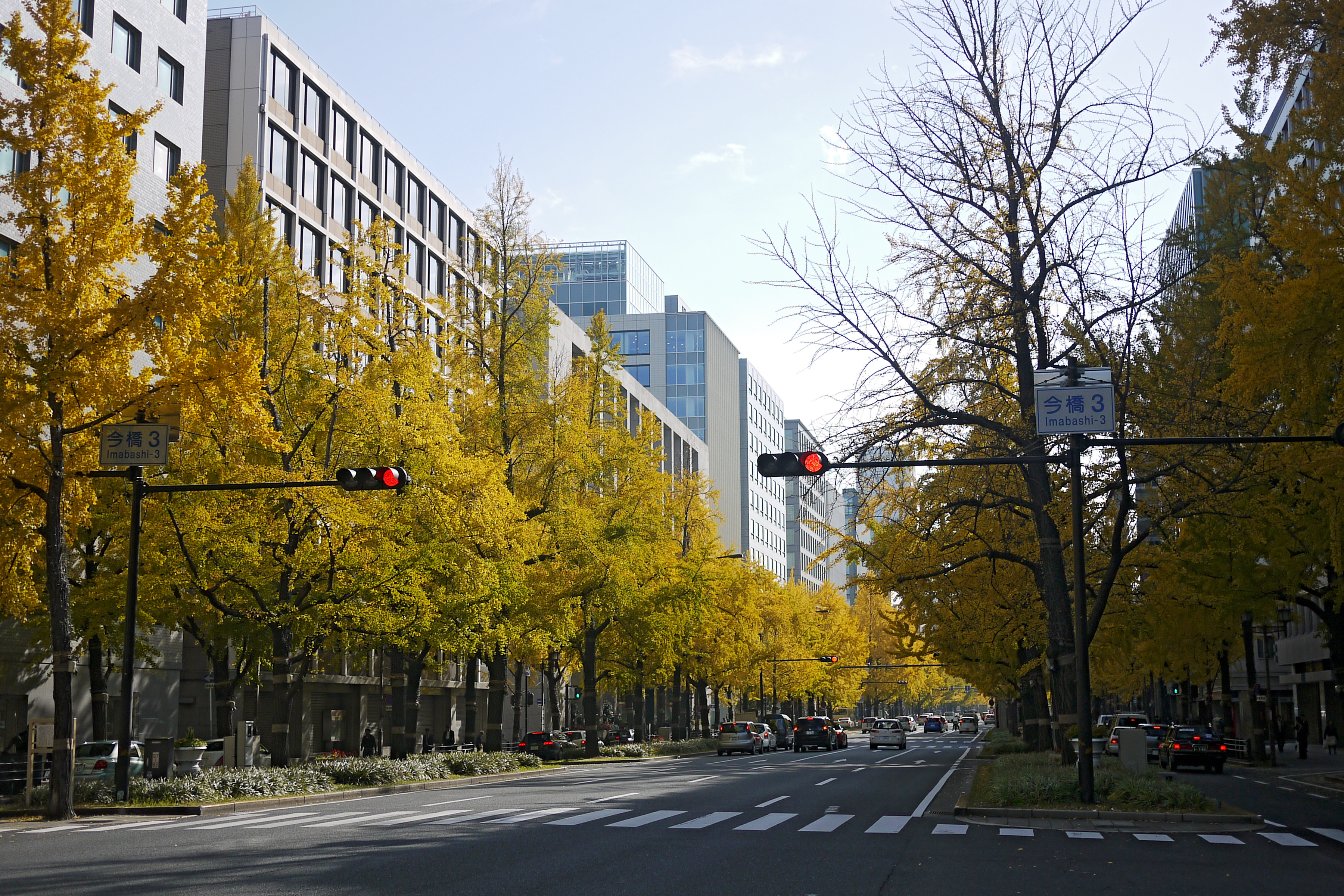 Intersection of Imabashi-3 on Midōsuji street in Osaka, Osaka prefecture, Japan